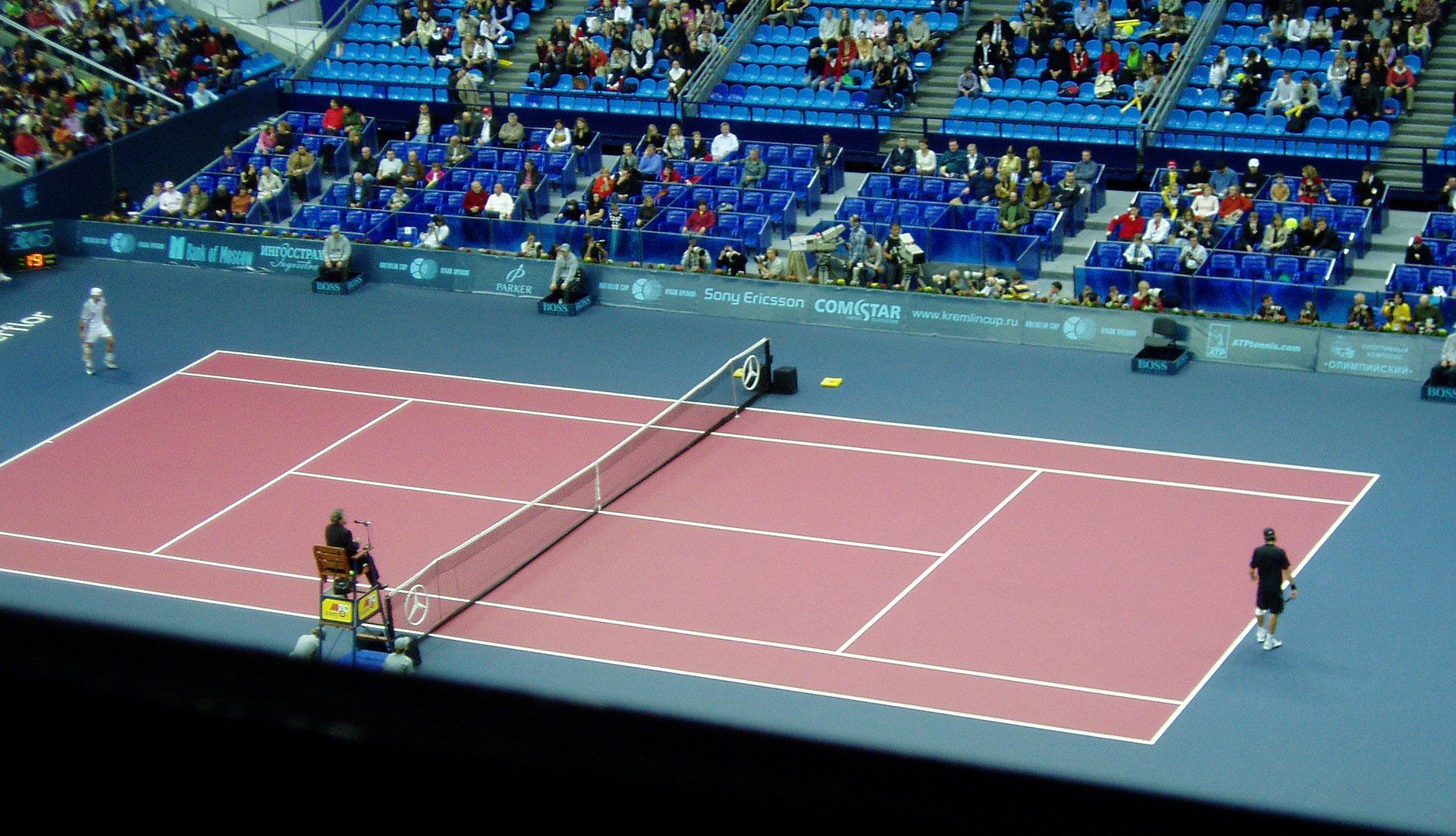 2005 Kremlin Cup – Men's Singles Final: Kiefer vs Andreev